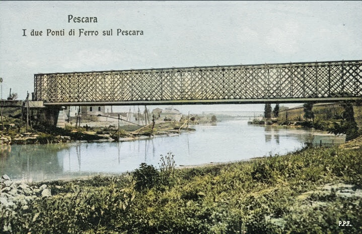 Ponte ferro pescara